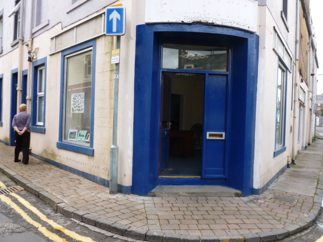 The main entrance of Borders Family History Society at 52, Overhaugh St, Galashiels, Scotland, on the corner with Bank Close. Borders Family History Society